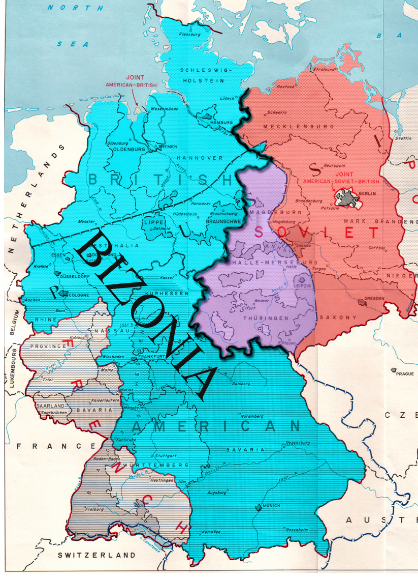 A modified version of the U.S. map of German occupation zones after WW2. Depicts the creation of Bizonia after merging the British and American zones.